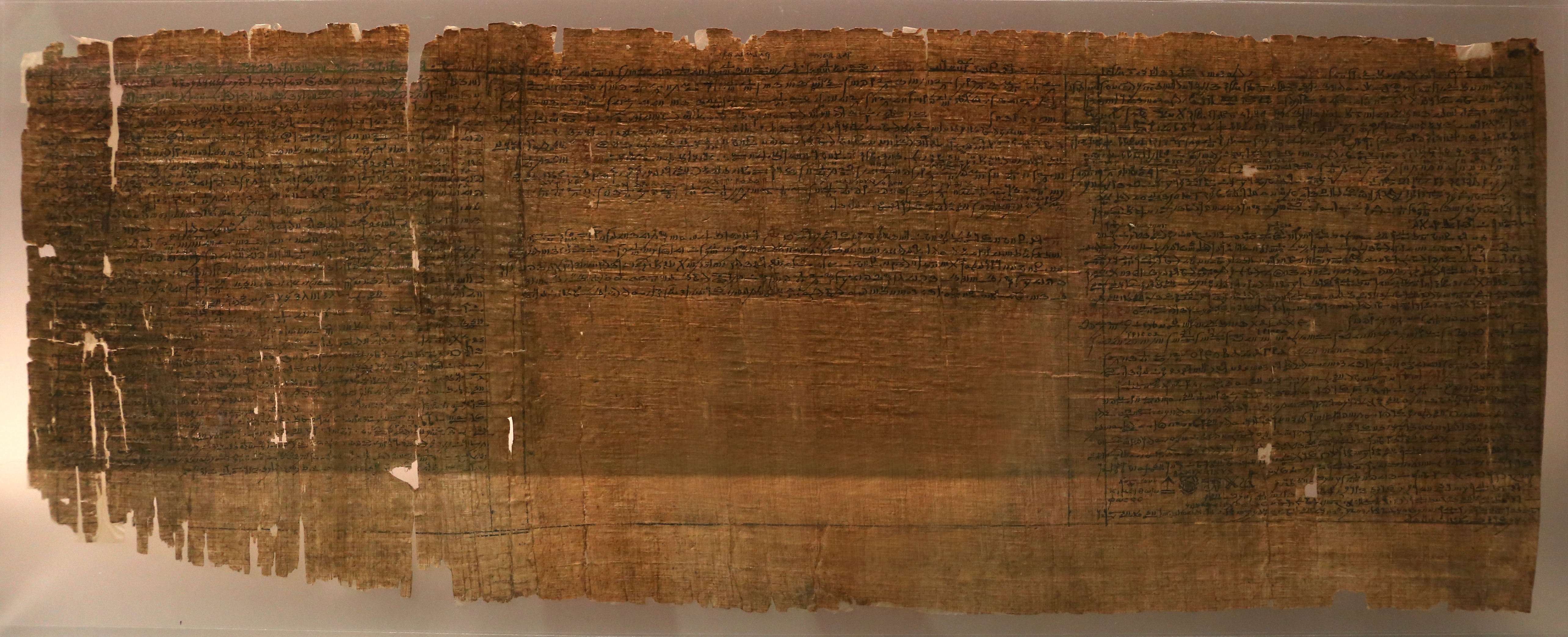 antiquities in the Rijksmuseum van Oudheden